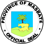 Provincial seal of Masbate, Philippines.